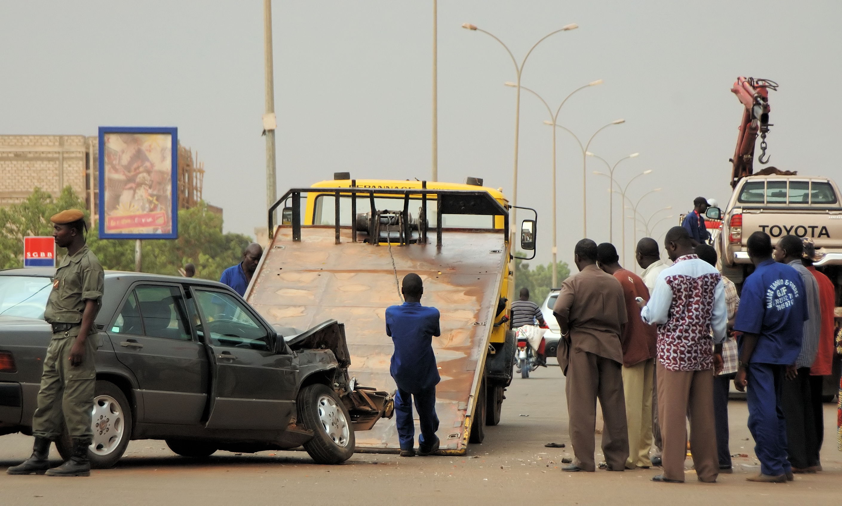 Car accident on the Charles de Gaulle avenue in Ouagadougou.